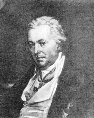 Alexander Rimsky-Korsakov (August 24, 1753 – May 25, 1840) Russian General